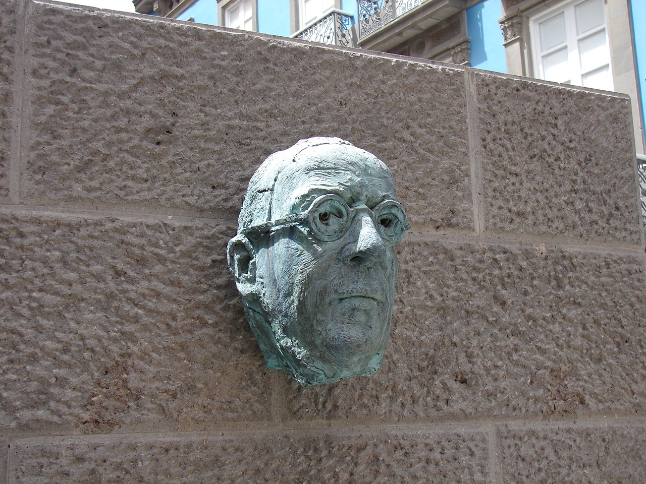 Médico, fisiólogo y político español, Presidente del Gobierno de la II República entre 1937 y 1945 (ya en el exilio). (Detalle)